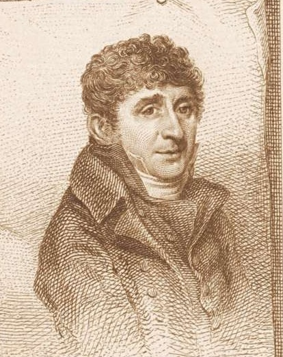 Nicolaas Baur